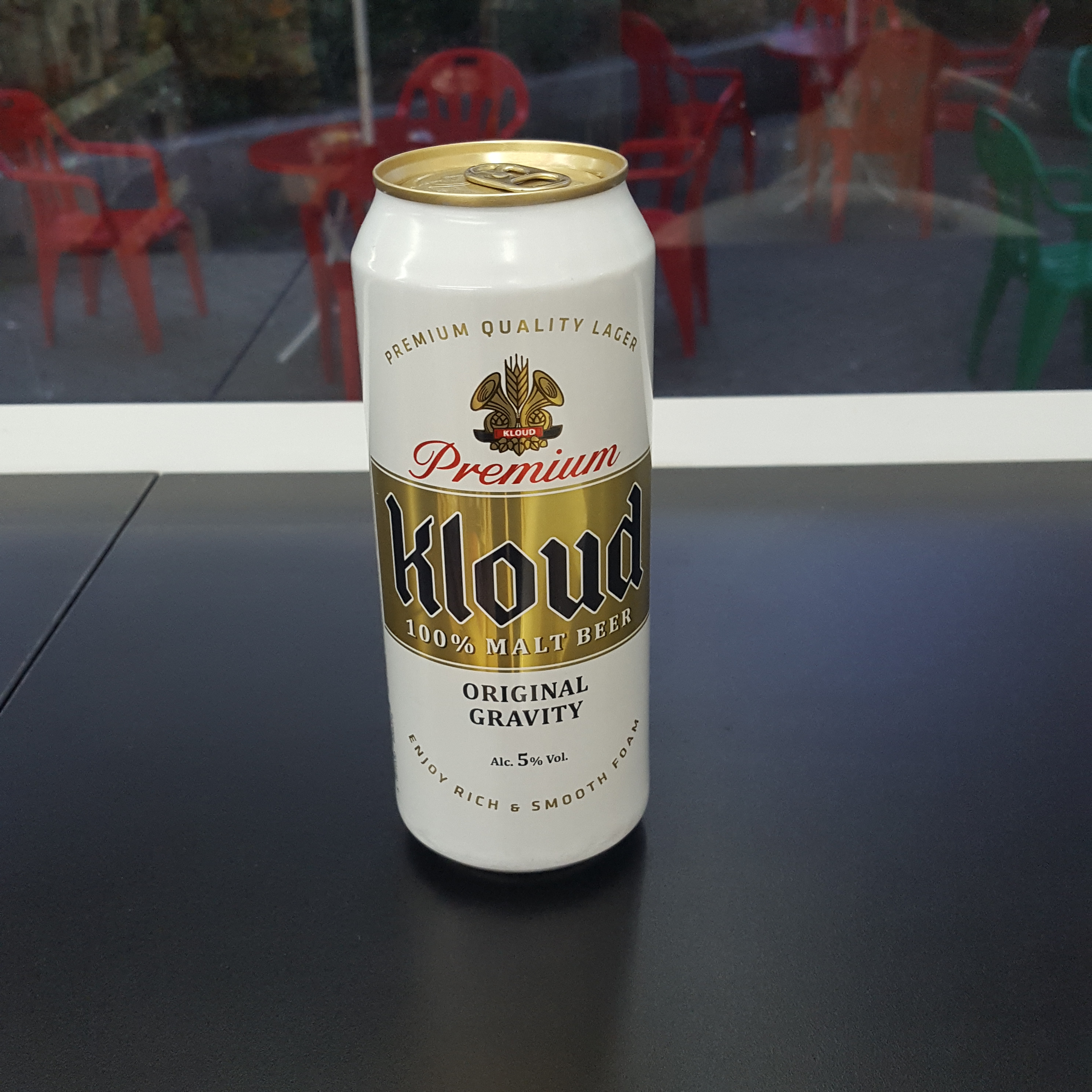 Beer brand Kloud